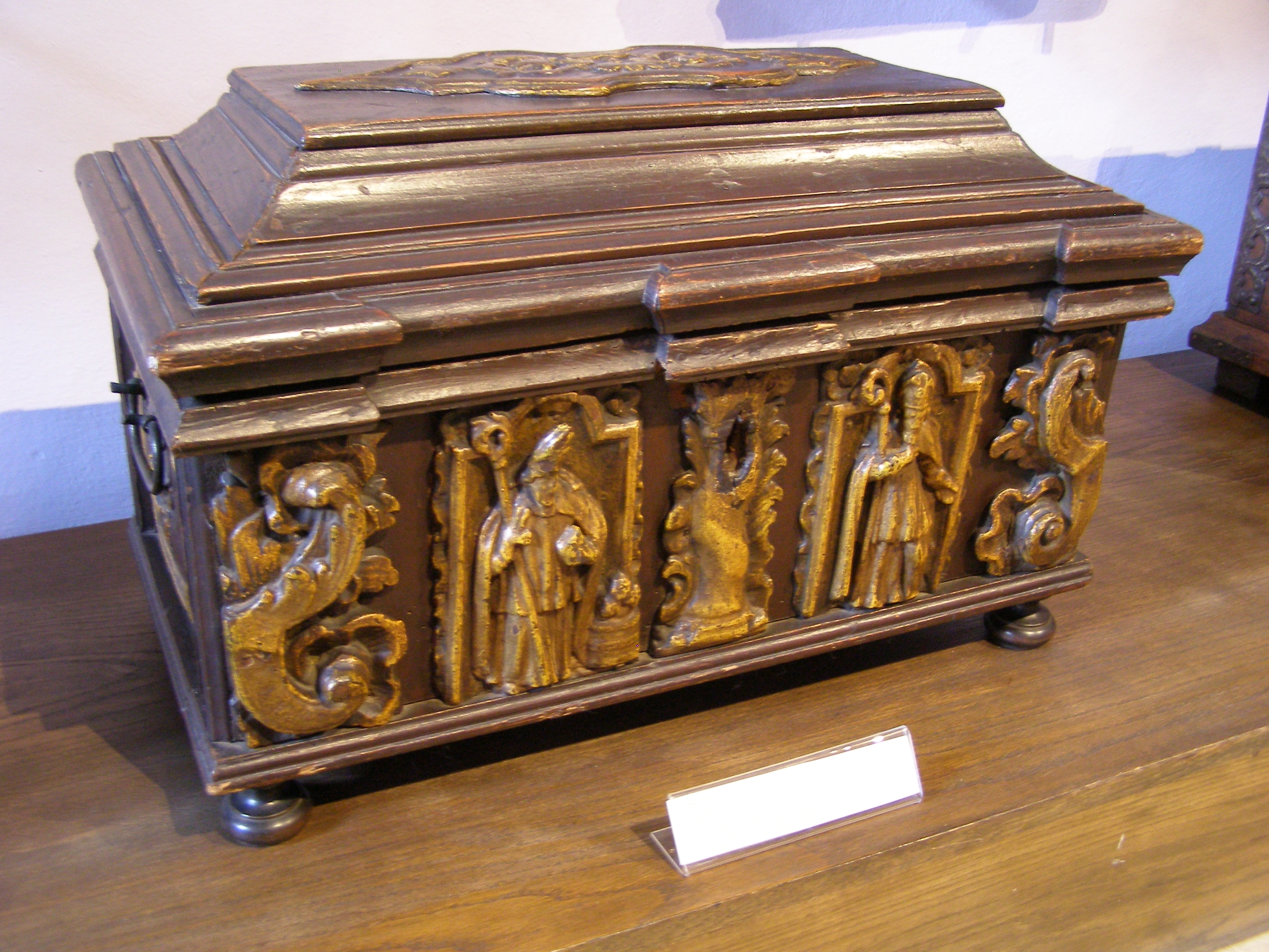 Poznań - Museum of the History of the City in the Town hall - chest of the shoemakers' guild from Strzelno with figures of Sts. Adalbert and Stanislaus